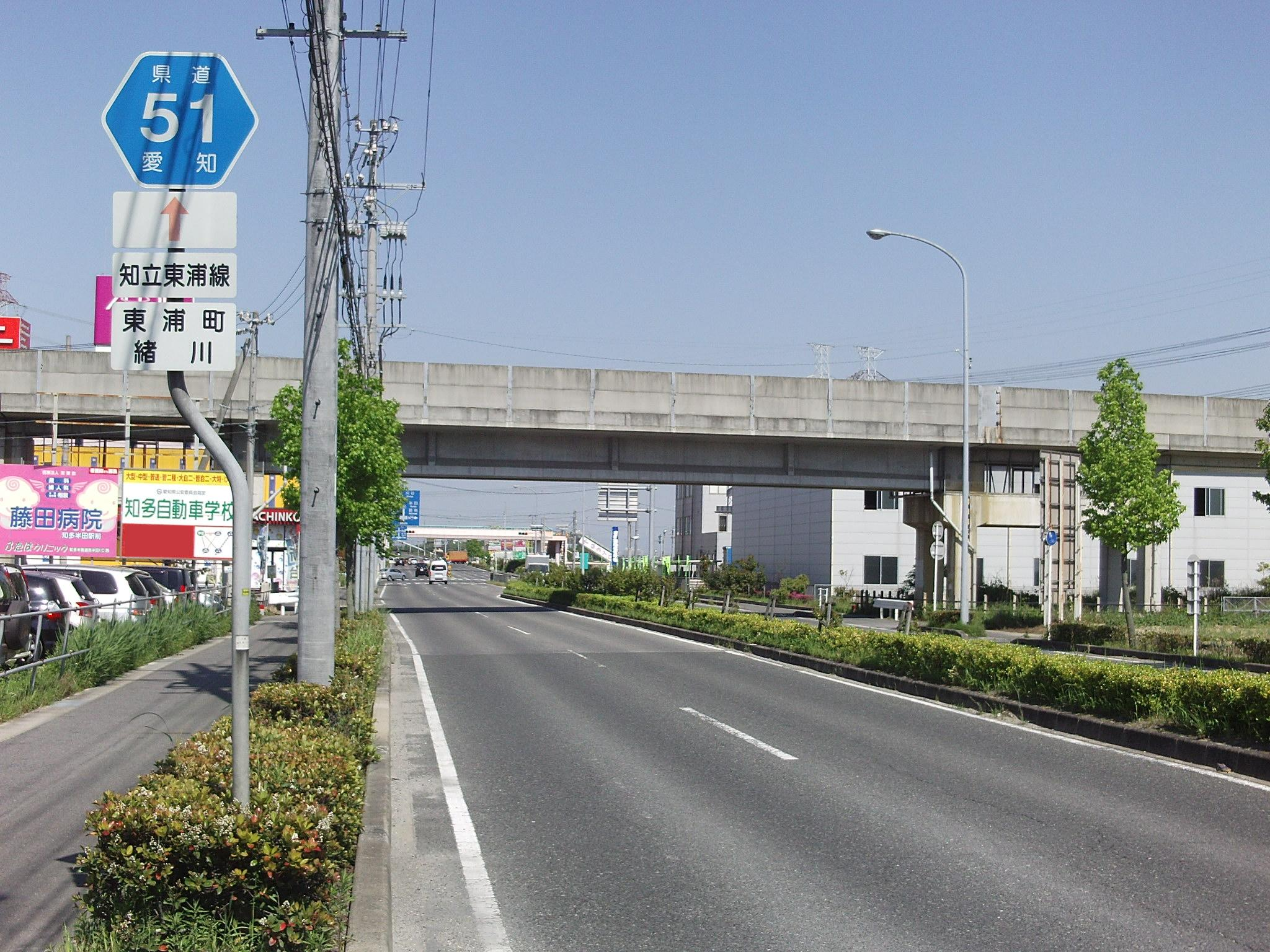 Aichi prefectural road No.51 in Ogawa, Higashiura-cho, Chita-gun, Aichi.